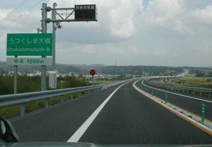 The Utsukushima Bridge (Utsukushima-ohashi) on the Abukuma Kogen Road in Yabuki City, Fukushima Prefecture, Japan